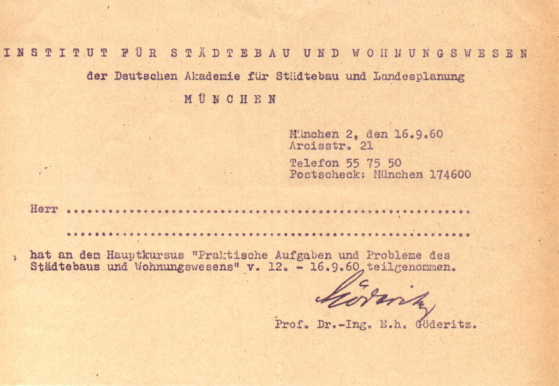 Hectograph from a master made by typewriter and pen.